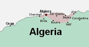 Map showing areas where Kabyle is spoken